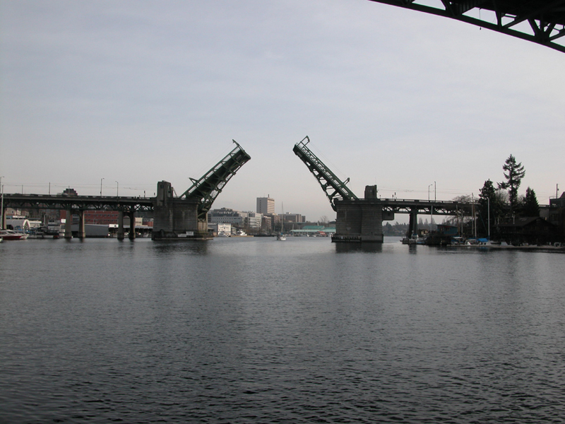 Seattle's University Bridge from the west; part of the Ship Canal Bridge is visible in the top right corner.